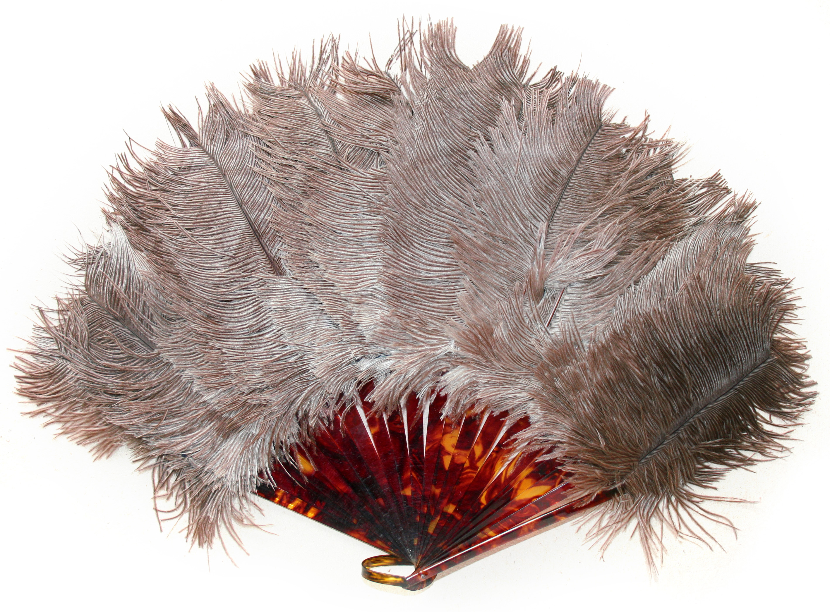 Art Deco objects - Ostrich feather. 1920s years - Budapest, Hungary